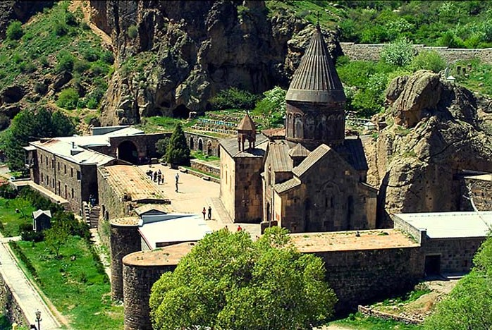 Geghard Mon., Armenia